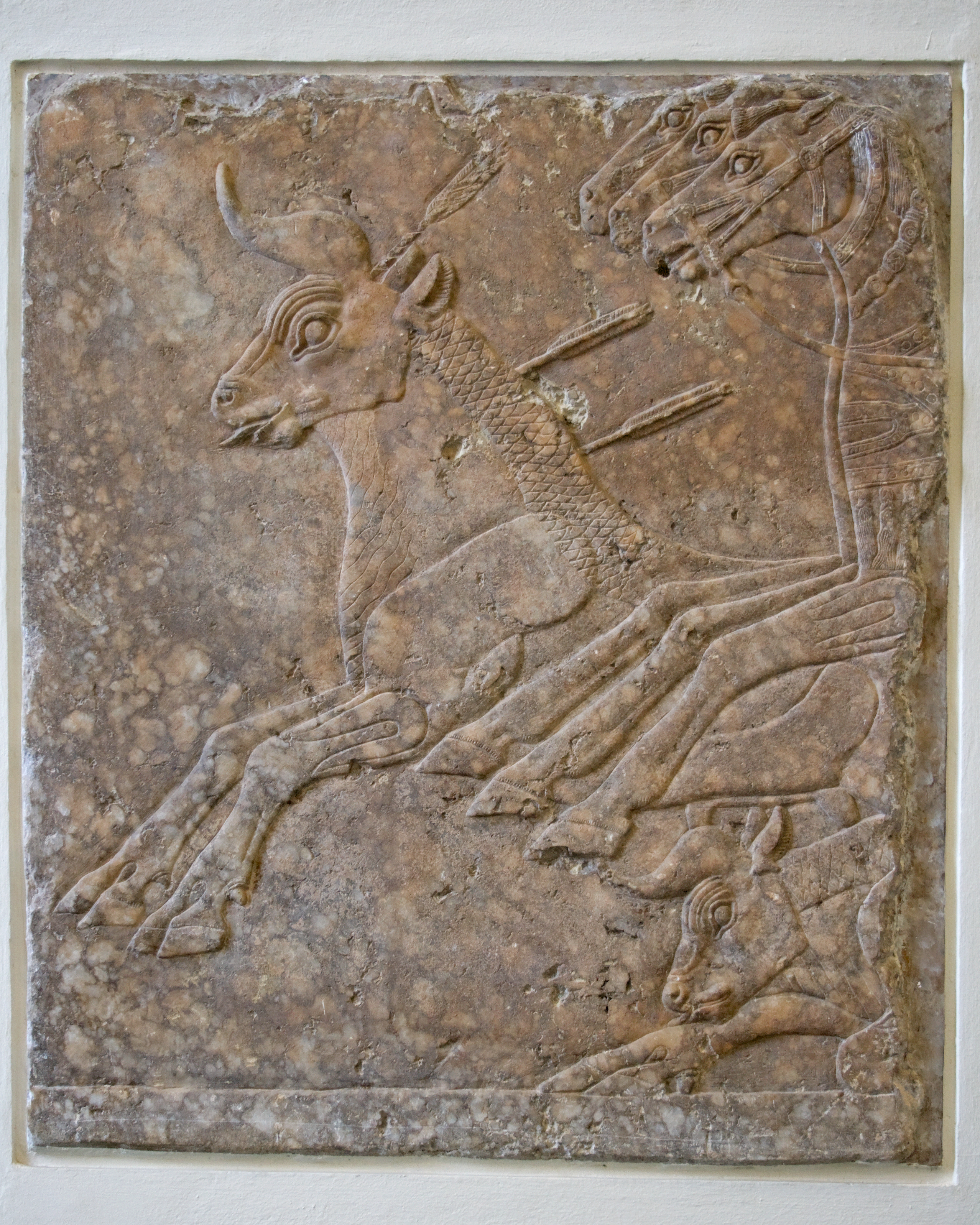 Relief from Nineveh, about 695 BCE of a hunting scene. Alabaster relief. Pergamon Museum